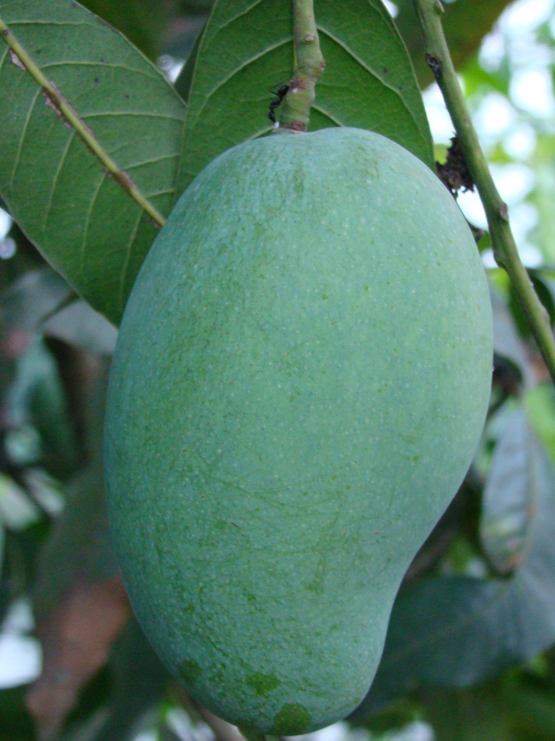 Mango of Bangladesh